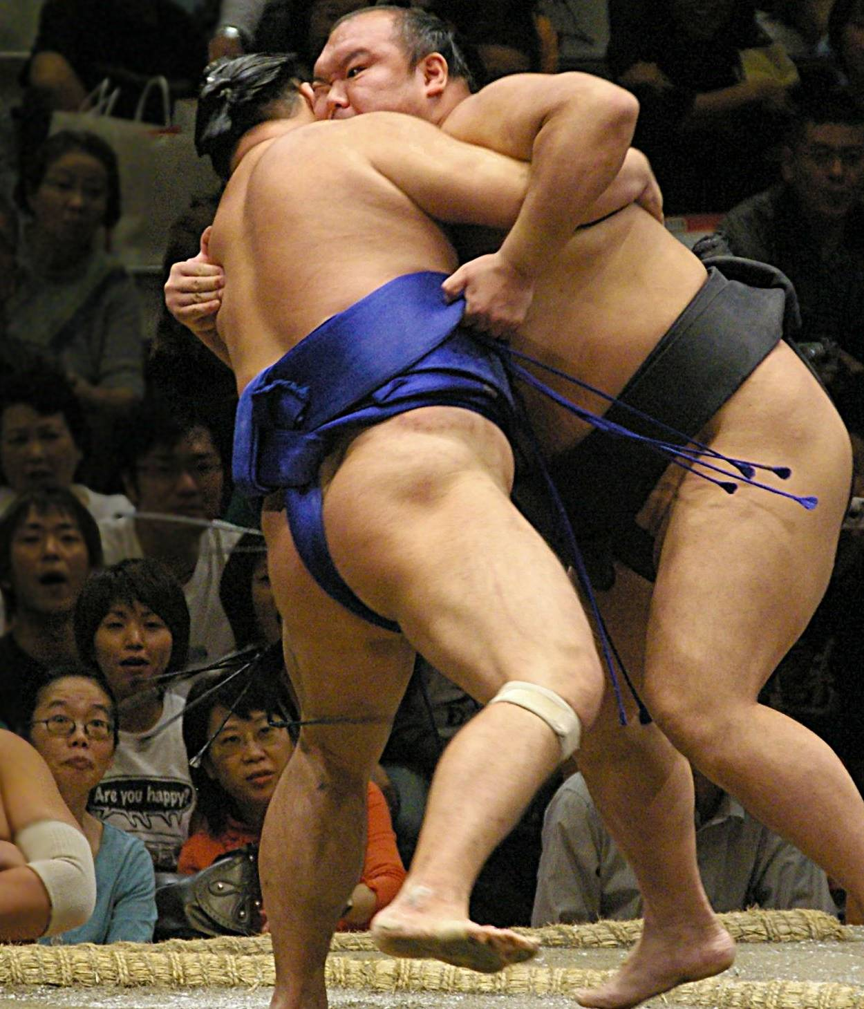 Kitazakura, Tokyo, October 2007